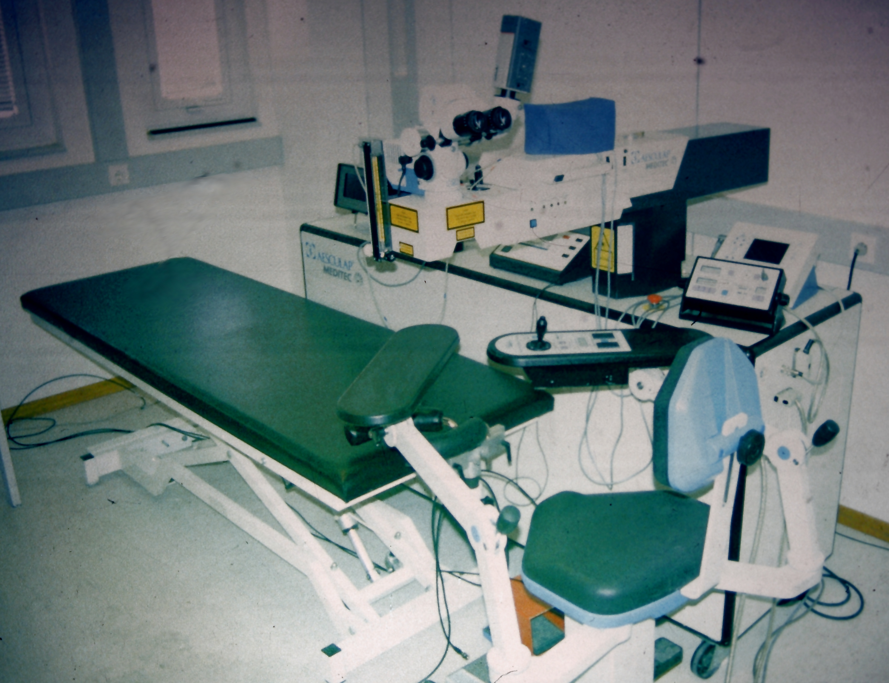 MEL60 ophtalmic Excimer Laser at the University of Crete/Greece - with this unit Prof. I. Pallikaris performed the first LASIK treatments